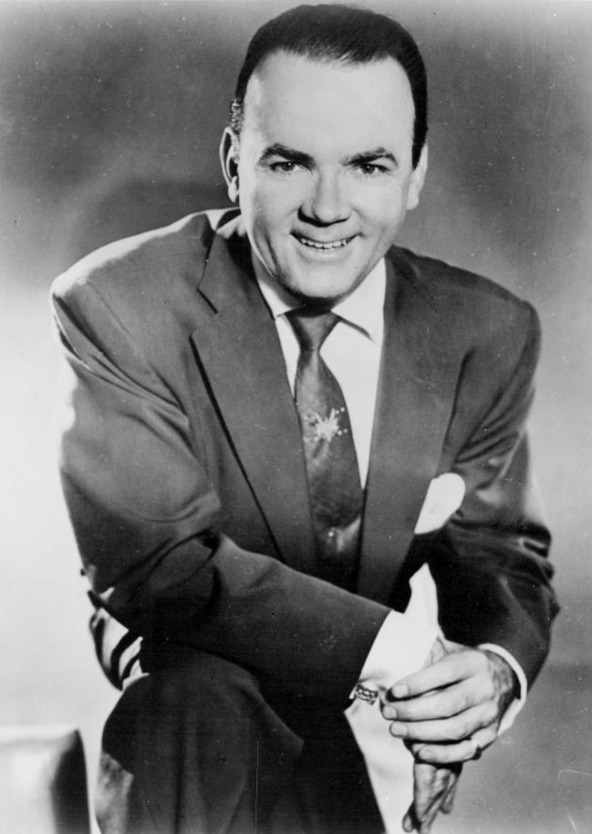 Photo of Johnny Olson from an ABC children's television special.